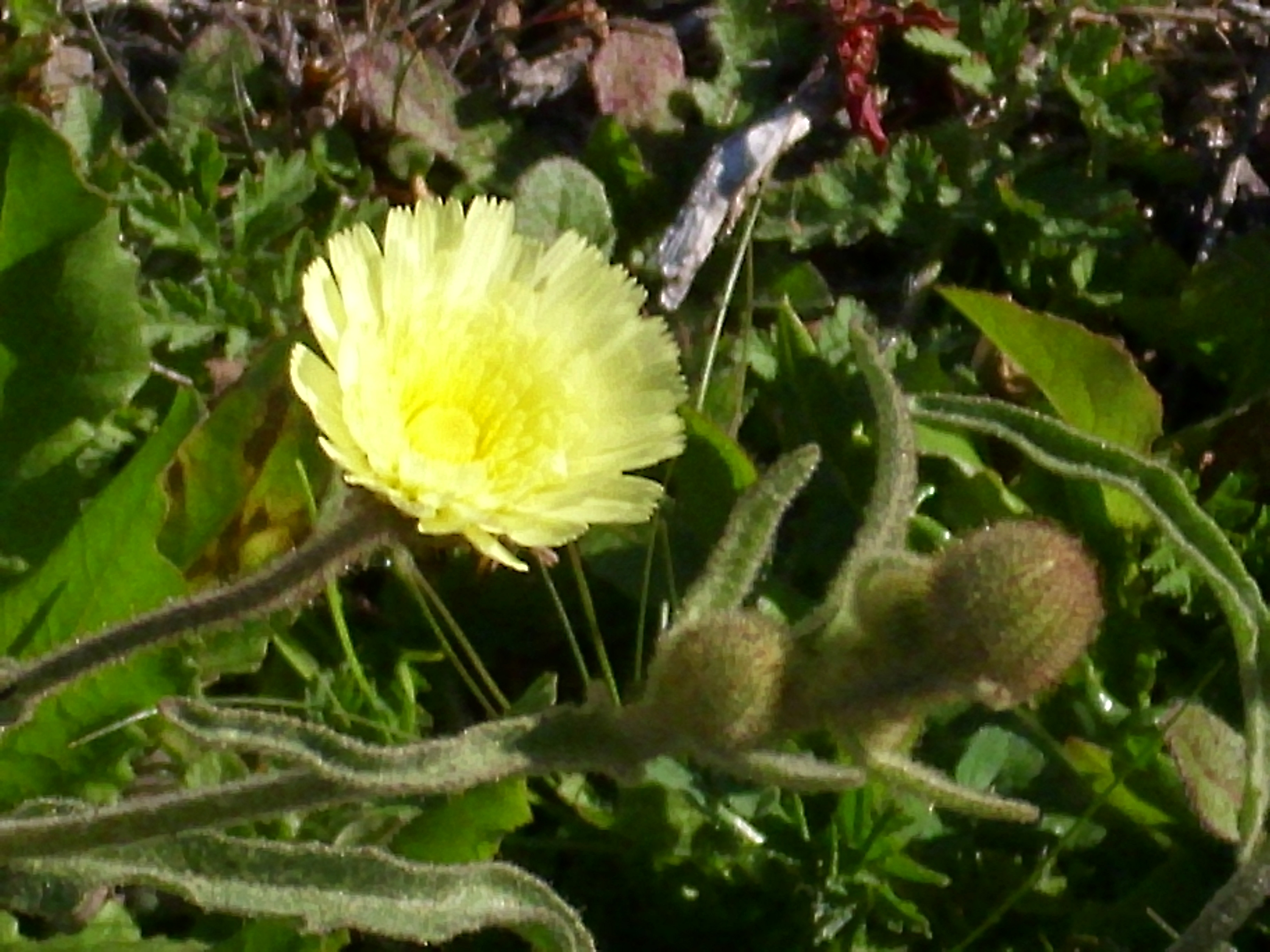 Andryala laxiflora flowers closeup Dehesa Boyal de Puertollano, Spain